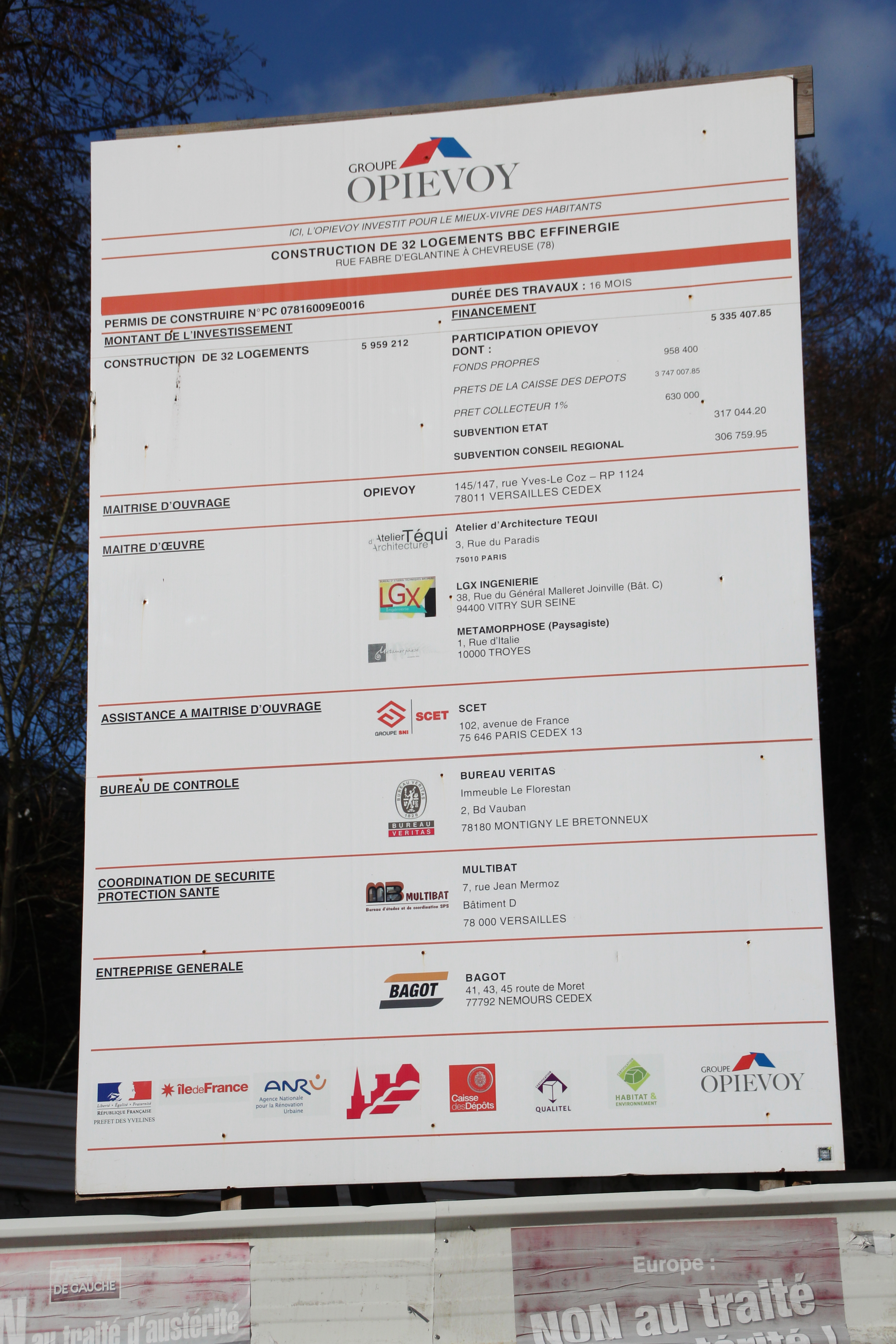 Site of the former gendarmery police station of Chevreuse, France